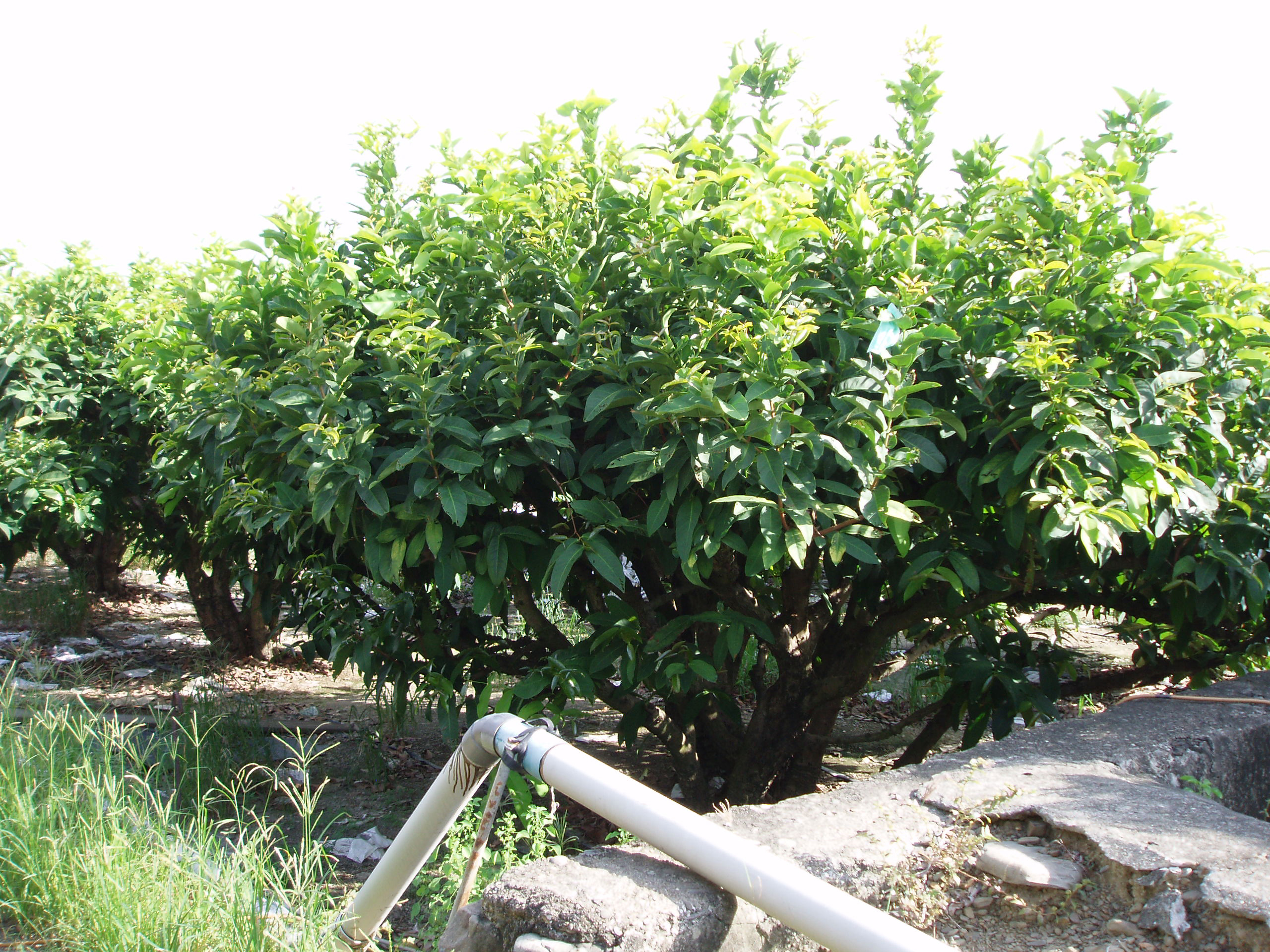 Wax apple orchard. Photo by Yu Jen, Su.